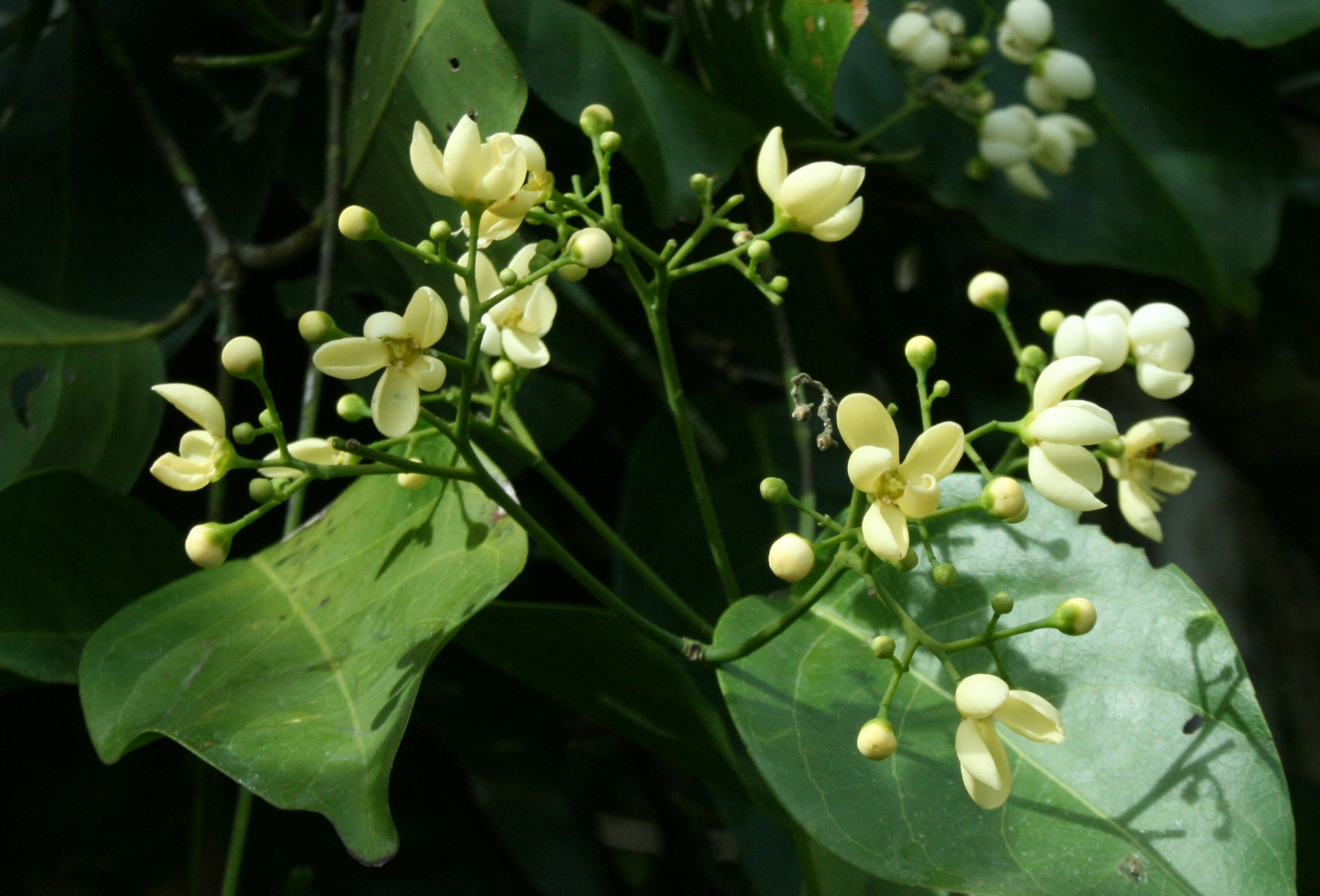 Flowering Cuervea kappleriana, Rio Caura, Venezuela